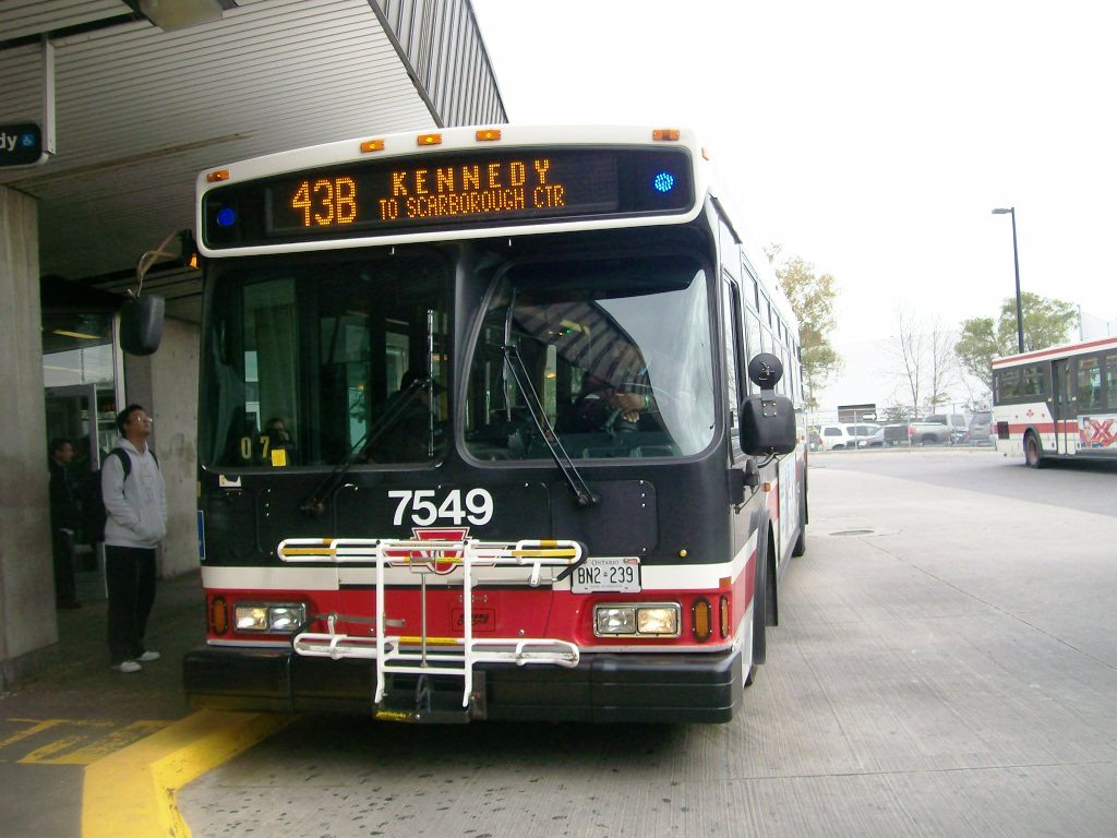 TTC bus #7549 on route 43B Kennedy, 2011.